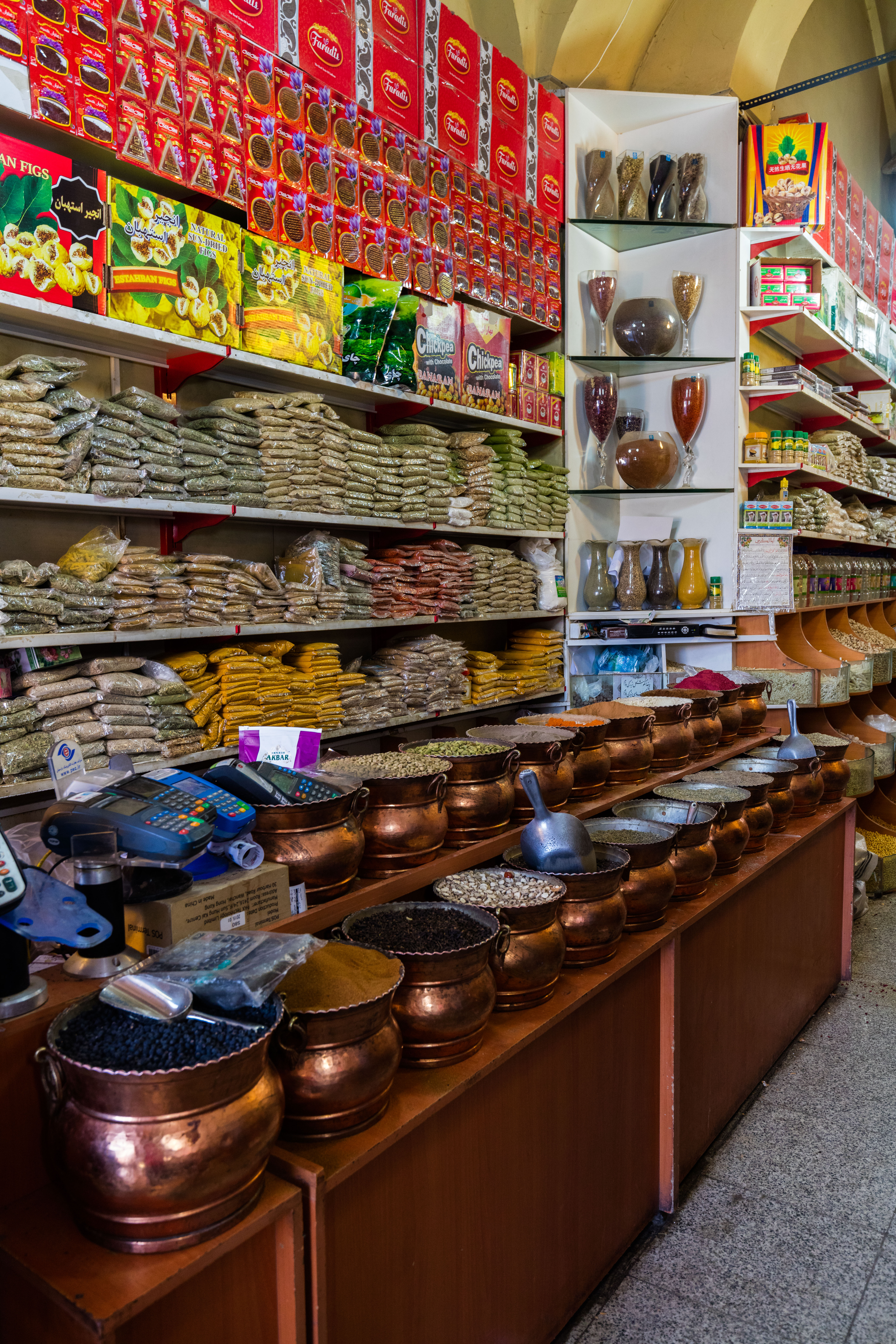 Bazaar of Kerman, Iran